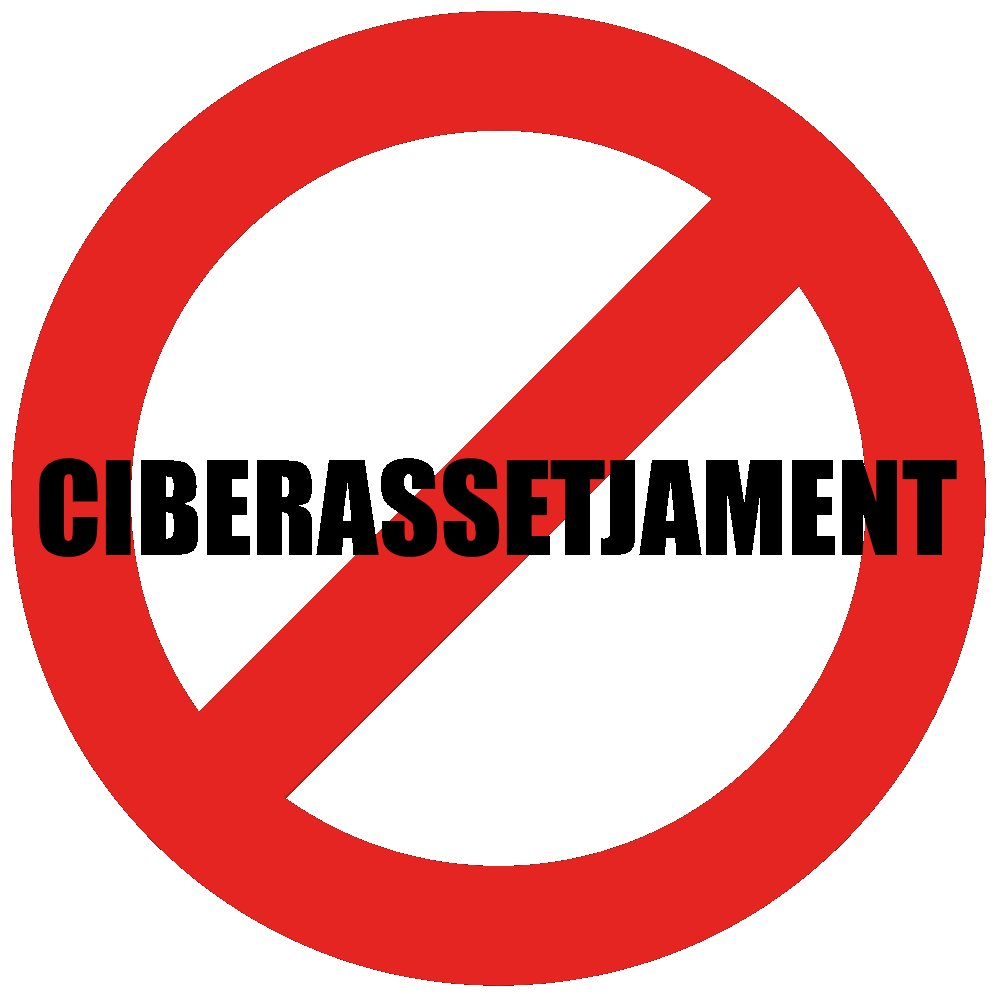 NO CYBERSTALKING